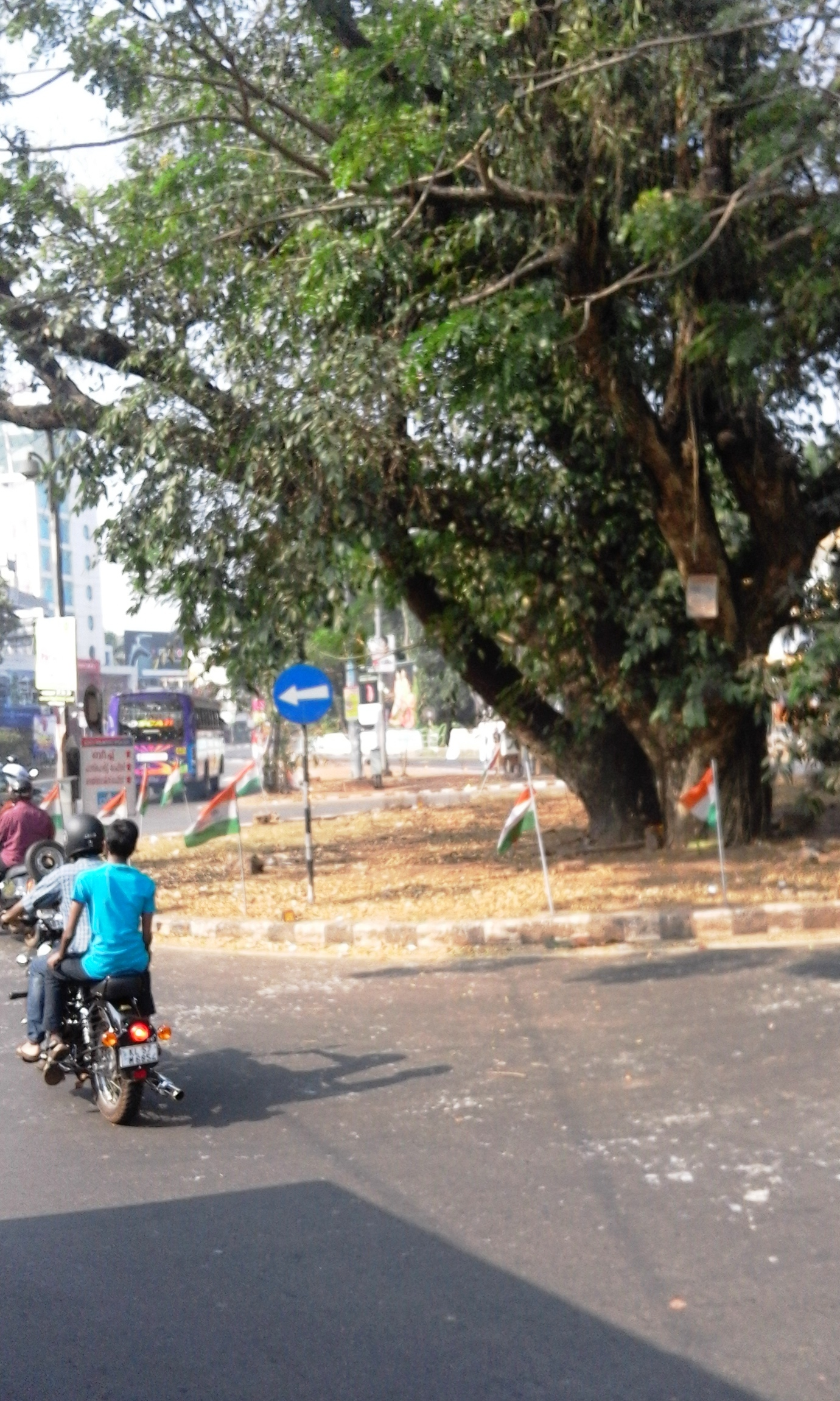 Kozhikode city, Kerala province, India.